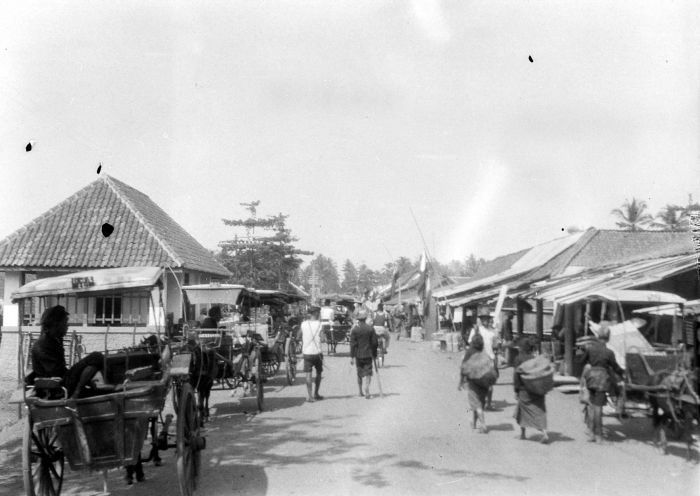 Street with waiting carriages